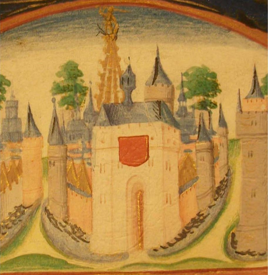 Historiated initial from AGR, Manuscrit 66, inv. 2e section, fol. 36r° (c. 1470)